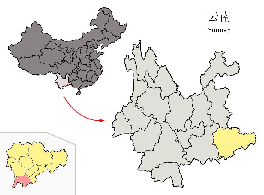 Location of Maguan County (pink) and Wenshan Prefecture (yellow) within Yunnan province of China Map drawn in october 2007 using various sources, mainly : Yunnan province administrative regions GIS data: 1:1M, County level, 1990 Yunnan Counties map from